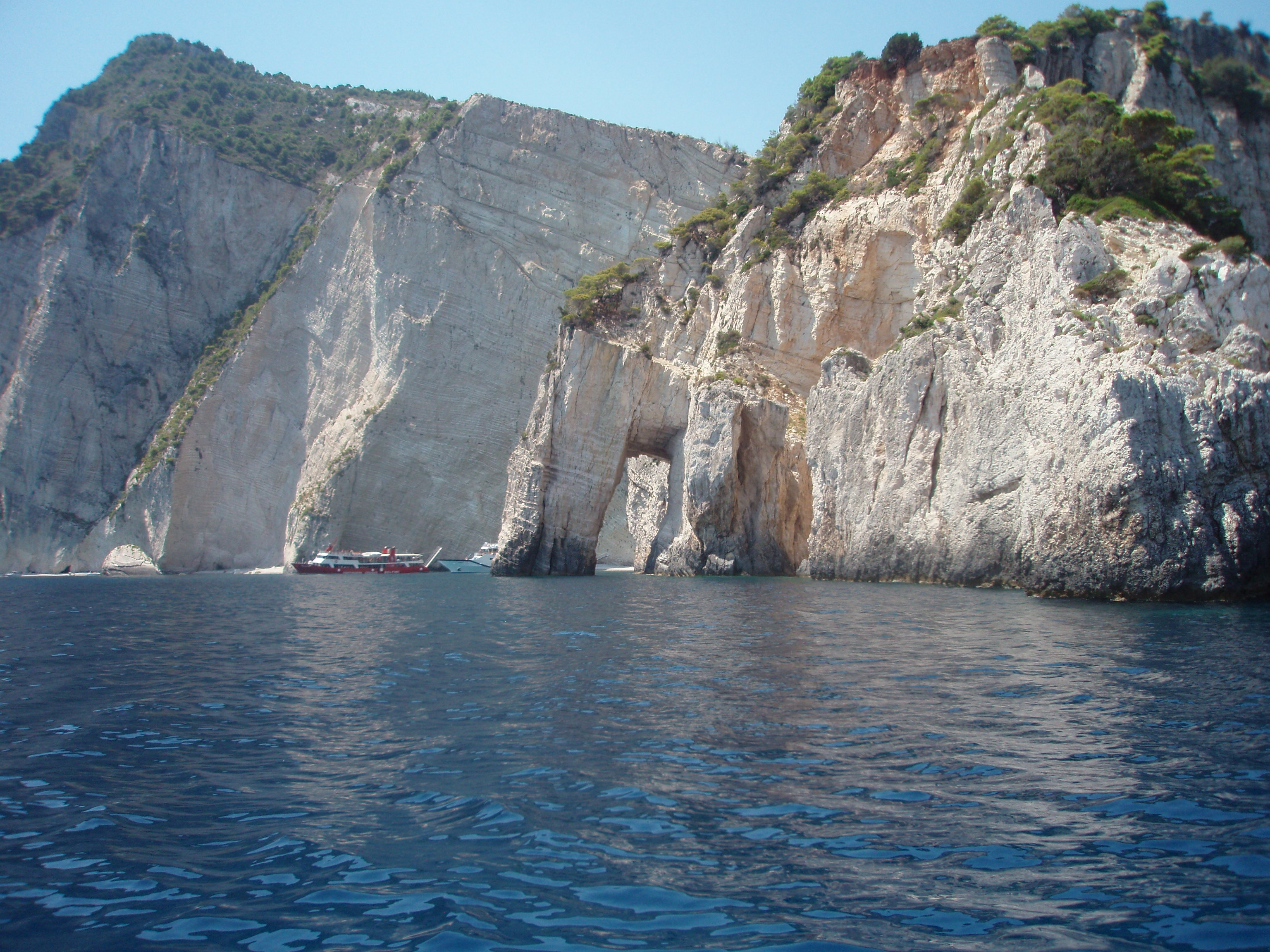 A beach surrounded by high cliffs and a cliff underpass shaped out of the coastline rocks by the Ionian Sea, Marathia peninsula and cape, Zakynthos island, Greece.